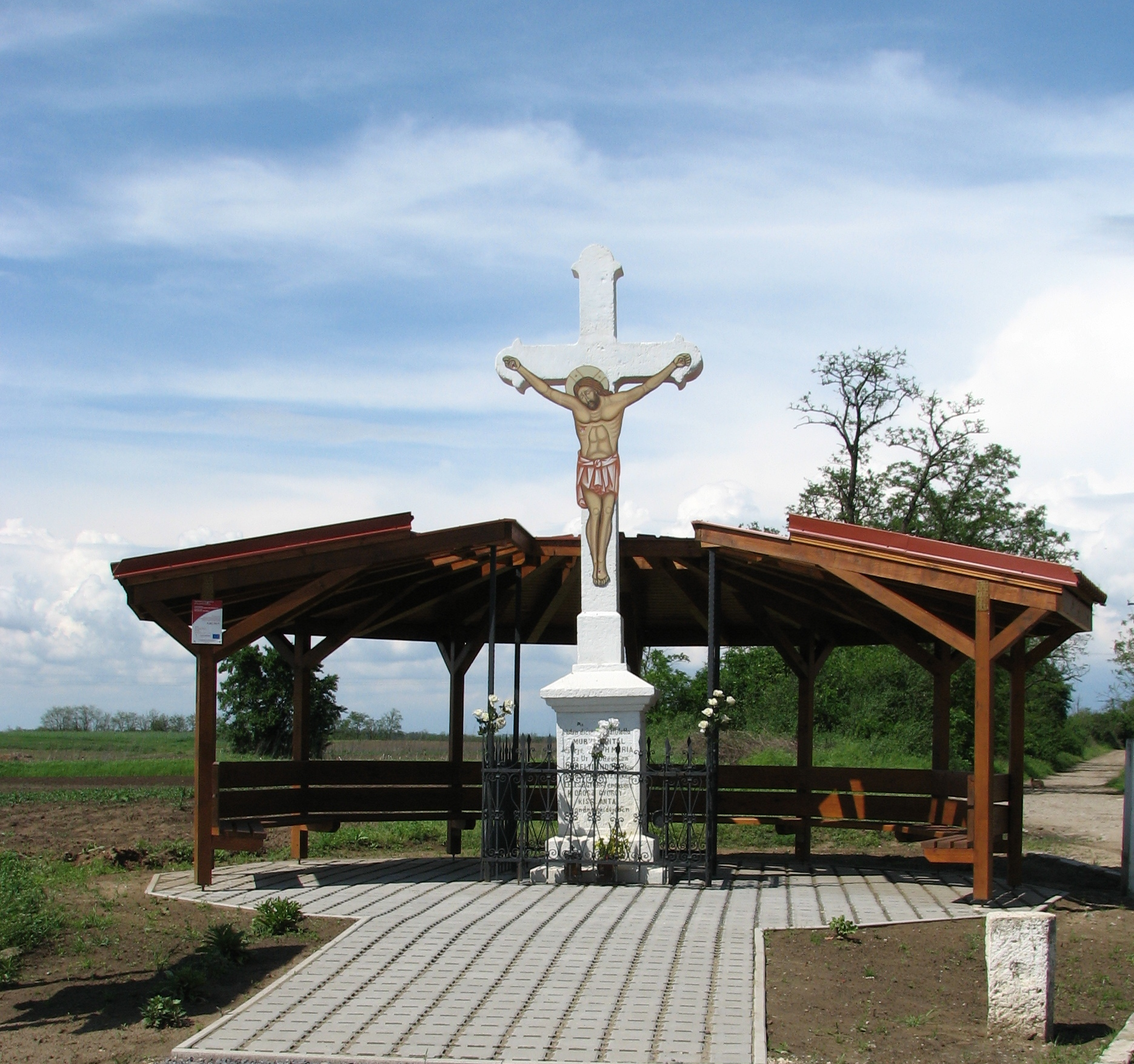 The photo was taken on the Eastern territory of Hajdúdorog, Hungary. The crucifix was placed on the border of the municipality of Hajdúdorog and Szabolcs-Szatmár-Bereg county. The text carved in the bottom of the crucifix says: "It was erected by Antal Murvay and his wife Mária Tóth in the 1909th year of the Lord for the glory of God. In the time of parochus Andor Ujhelyi, vice parochus Mihály Végsheö, cantor György Lelesz and churchwardens György K Orosz and Antal Kiss." The crucifix was restored in 2009 and became part of the pilgrimage route from Hajdúdorog to Máriapócs.